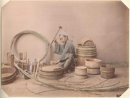 albumen